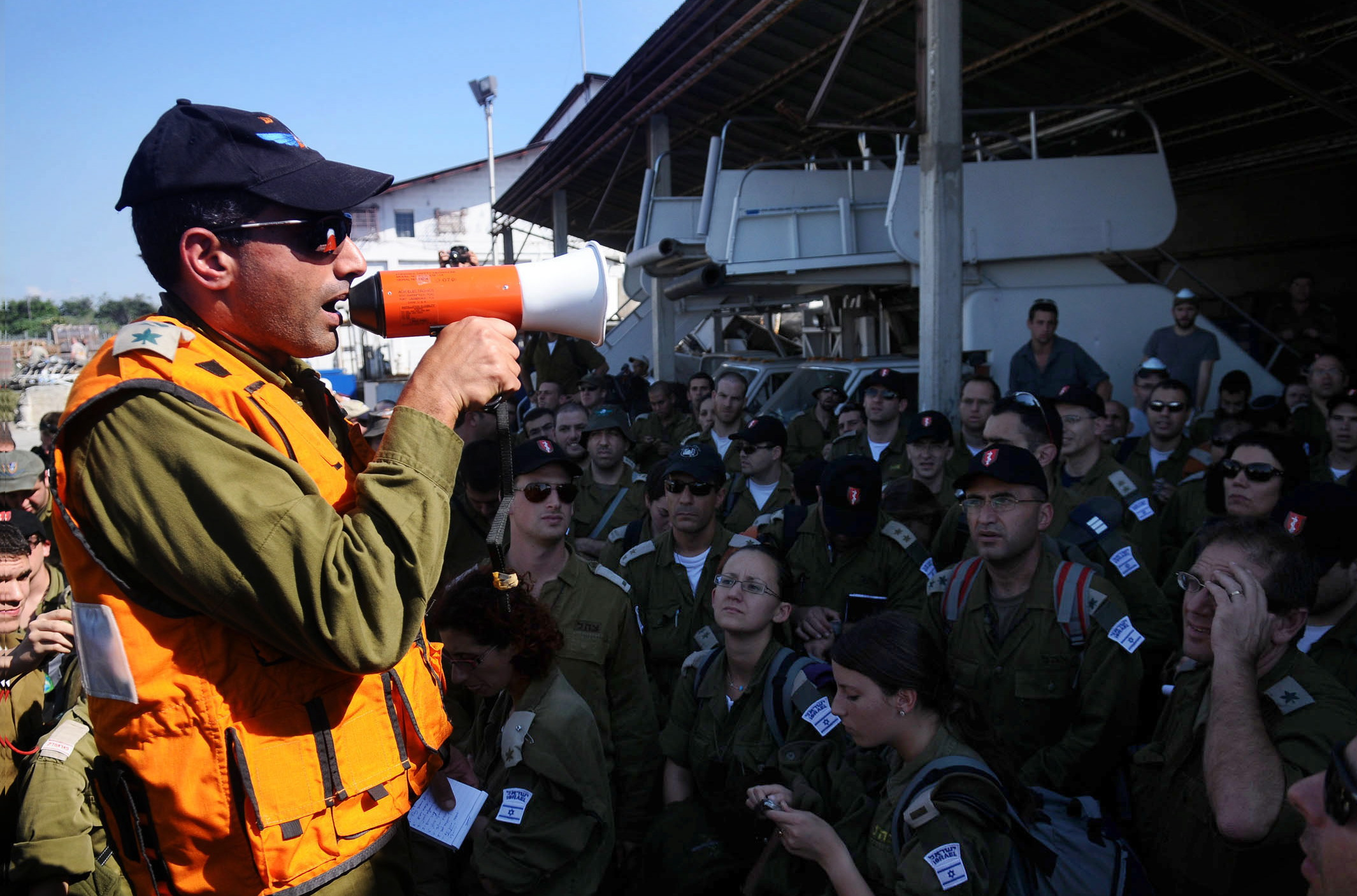 January 16, 2010. Israel Defense Forces Home Front Command Search and Rescue School Commander at the time, Col. Deddi Simchi, briefs members of the Israeli aid delegation upon arrival and before they begin their field missions in Port-au-Prince. Israel sent a team of over 250 to help in the rescue and medical efforts after Haiti was struck by a devastating earthquake in January 2010.